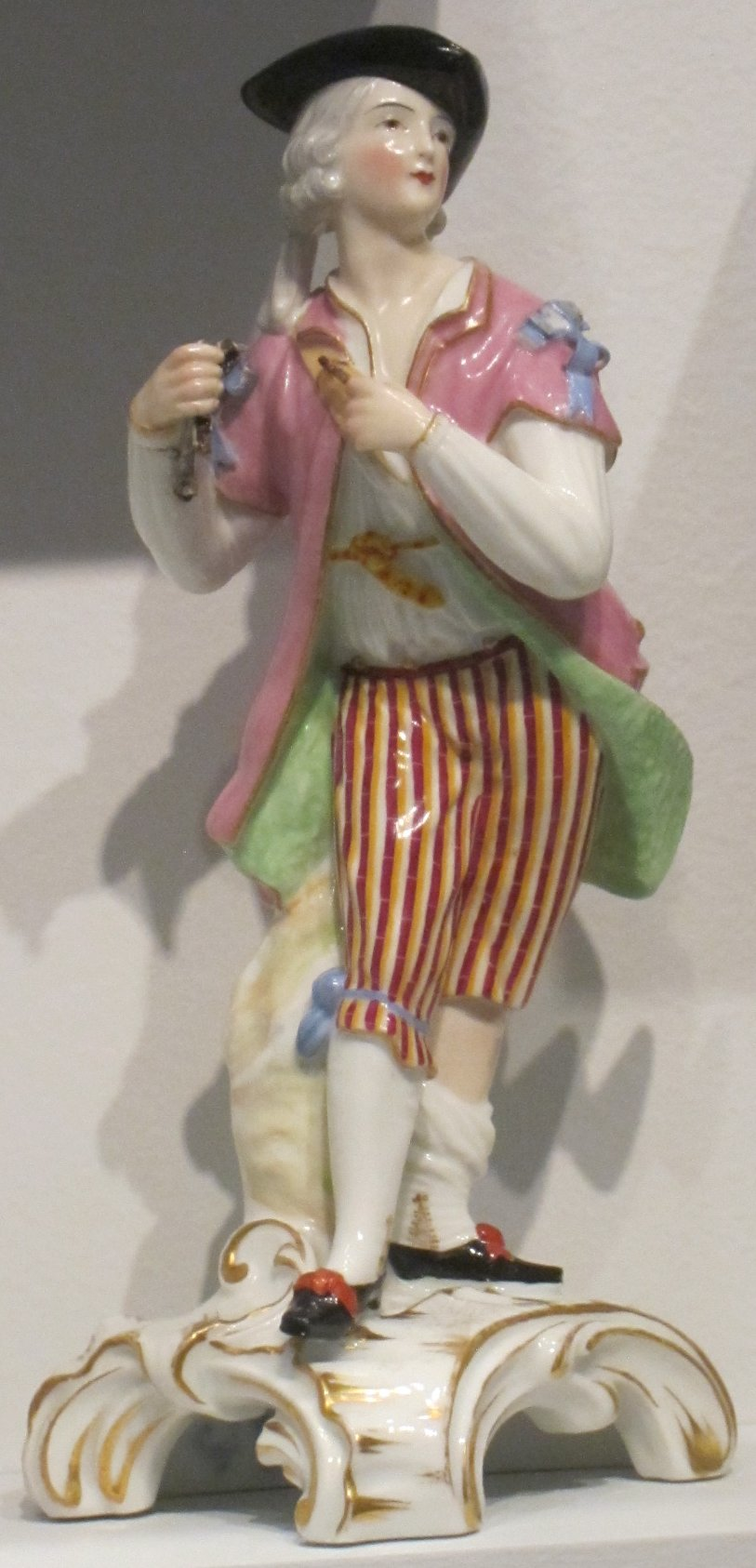 'Gallant Figure', soft-paste porcelain sculpture by Jacob Petit, c. 1835, French, Honolulu Museum of Art